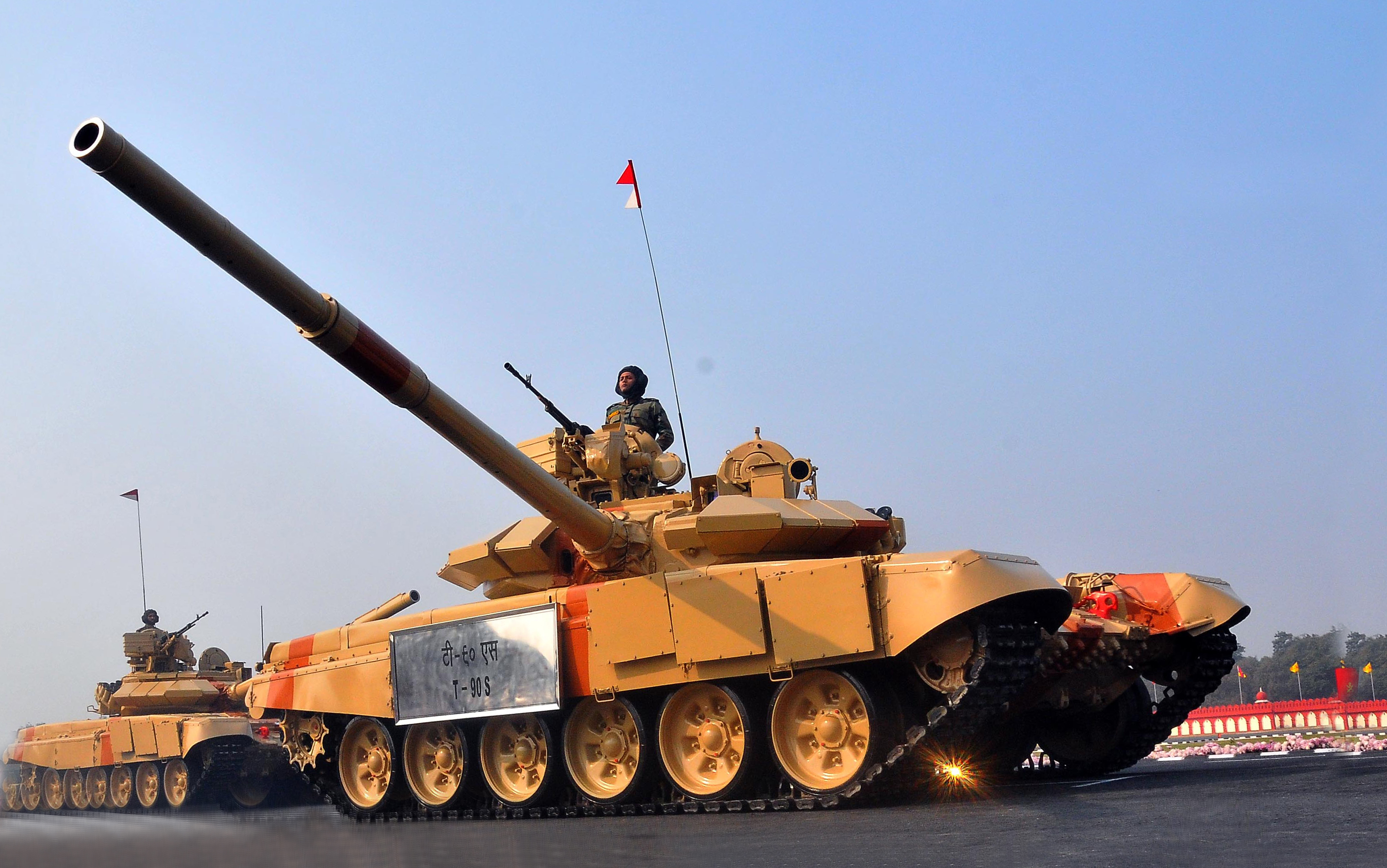 T-90 S Tank